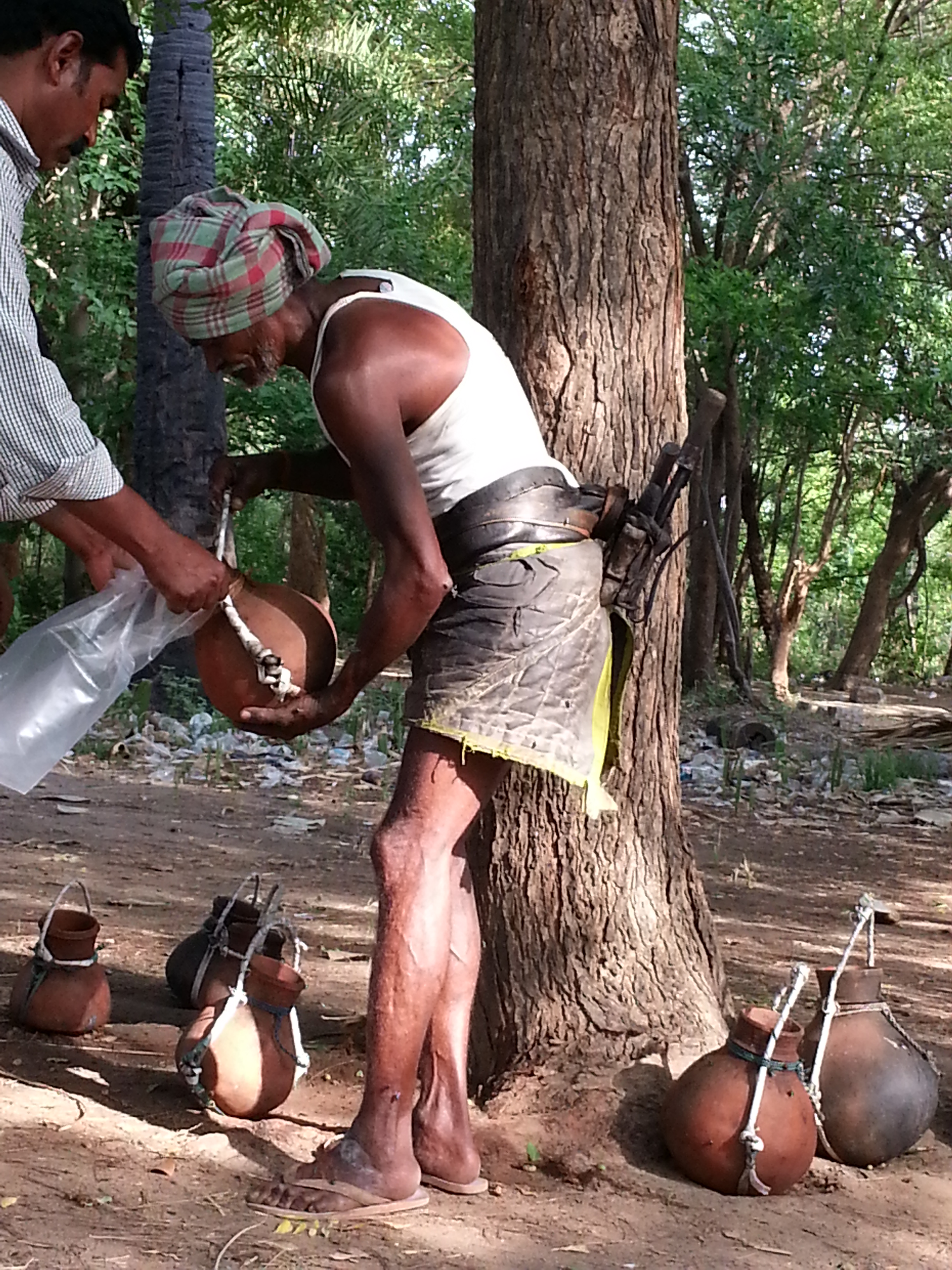 A person who taps toddy, who belongs to a particular caste.